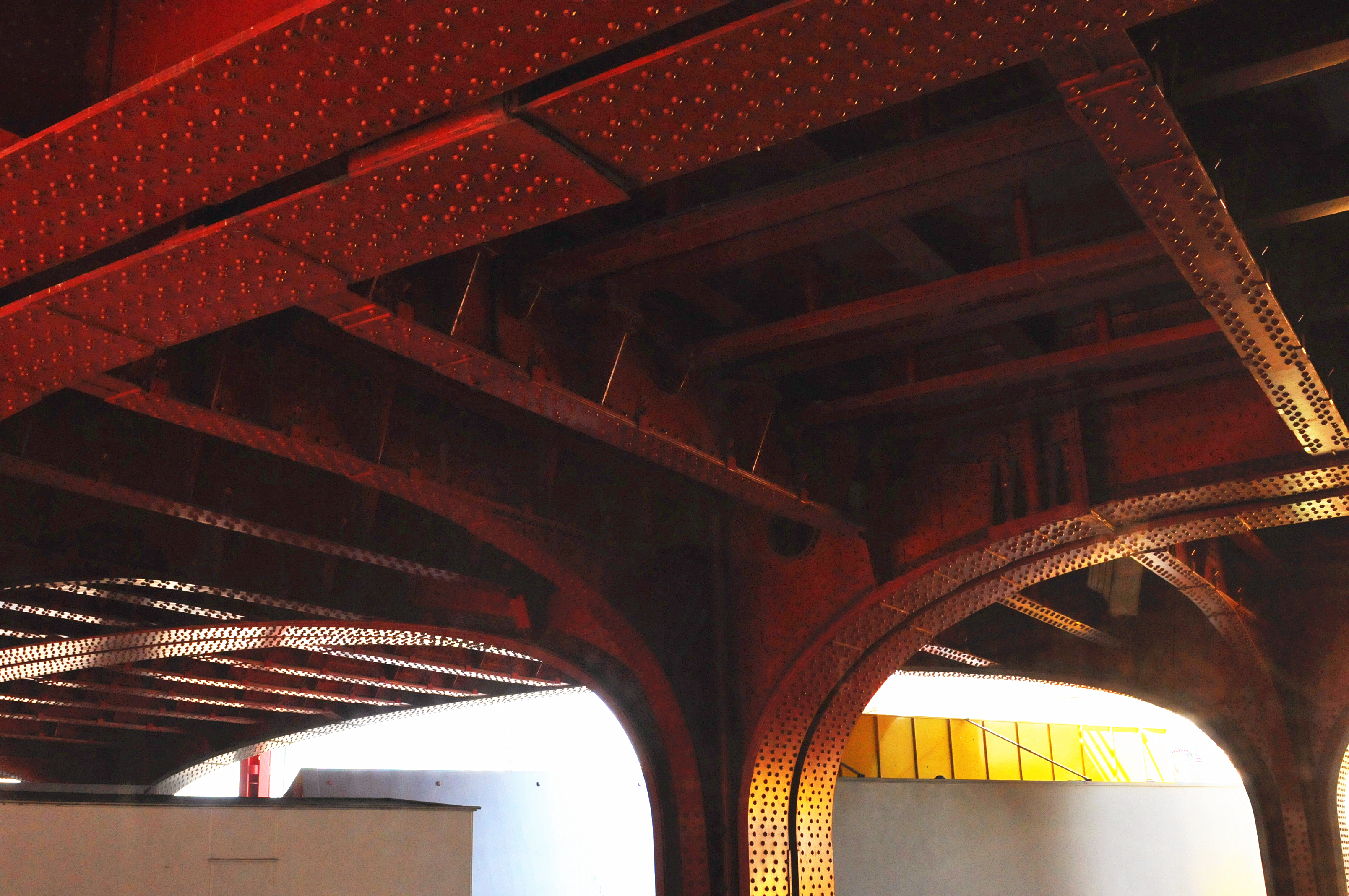 Railway bridge over Boulevard du Midi, Brussels